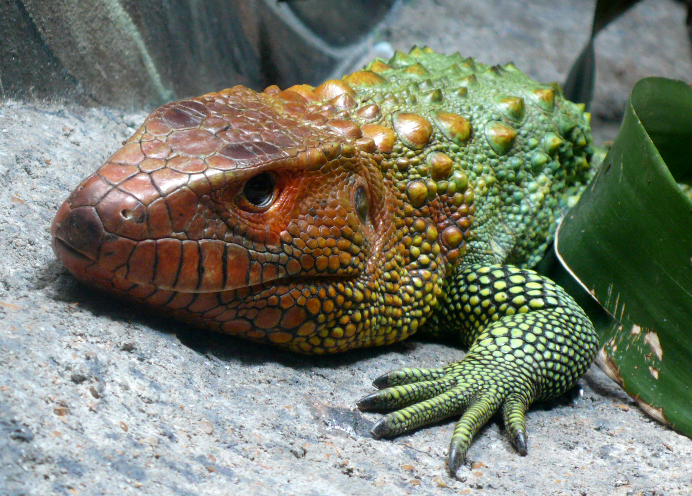 Caiman Lizard (Dracaena guianensis) at St. Louis Zoo